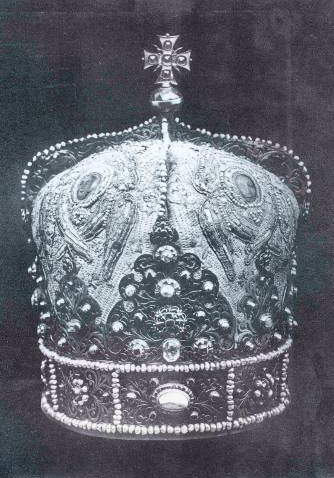 Mitre episcopalis of Peremyshl.